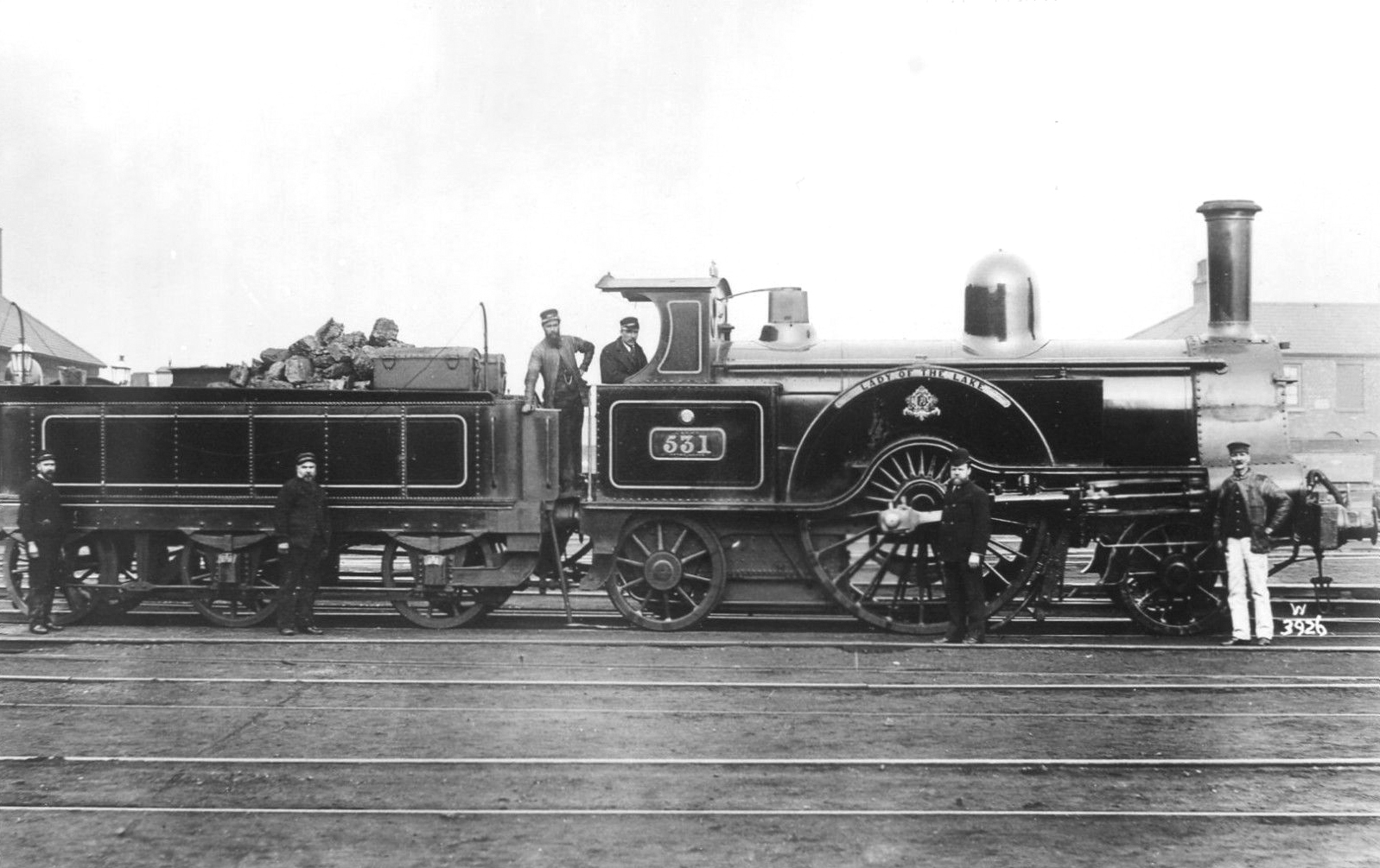 Photograph of LNWR engine No. 531, 'Lady of the Lake'